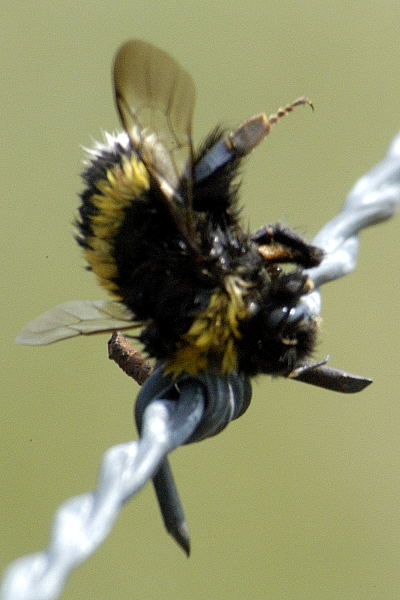 Bee Bombus sp., killed and stored by Lanius excubitor, at Commanster, Belgian High Ardennes.